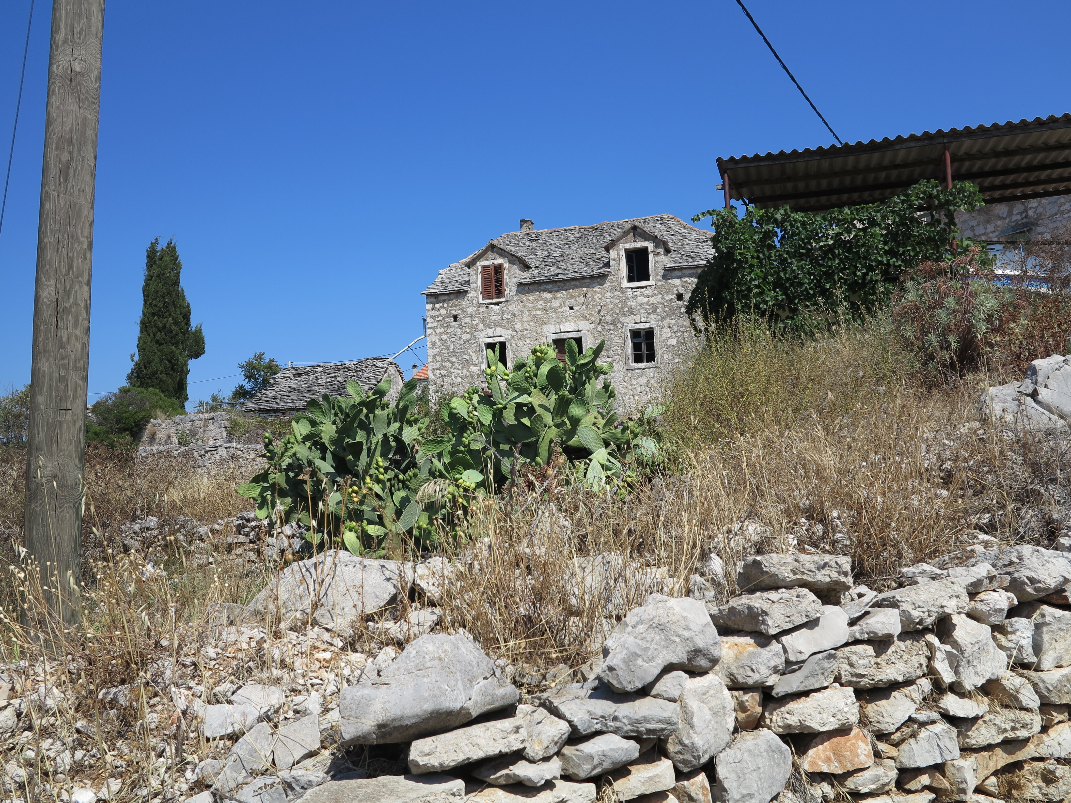 Donje Selo on the island Šolta / Croatia / Adriatic Sea. Farmhouse built about 1900.